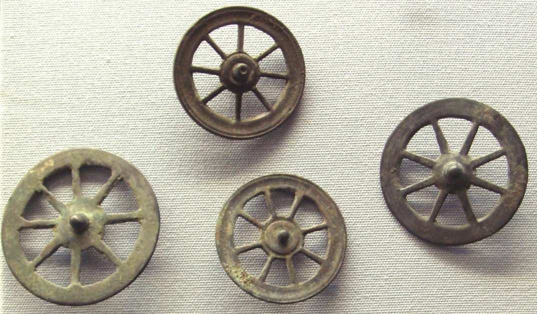 Rouelle_votive_wheels